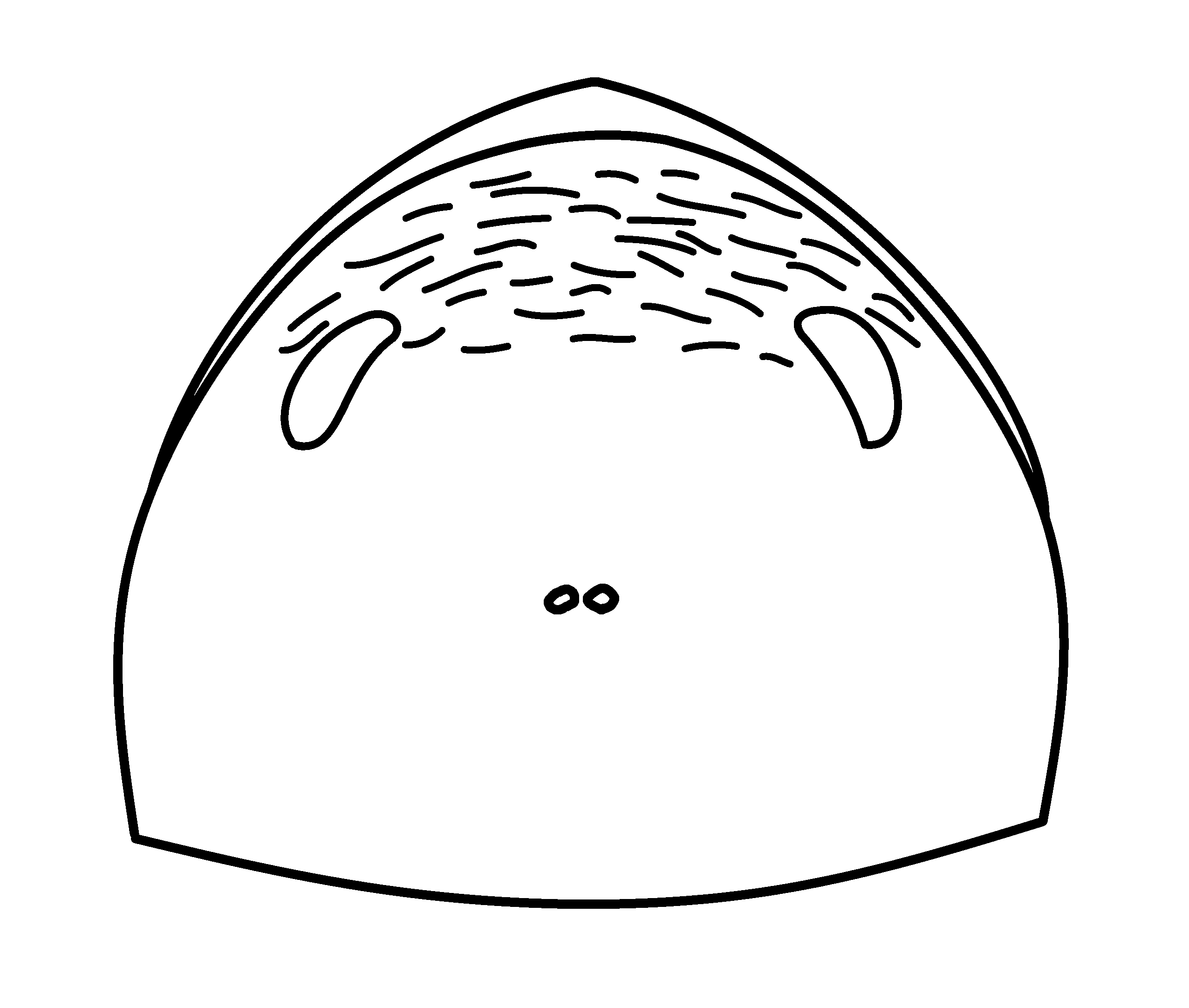 Restoration of the carapace of the eurypterid Eysyslopterus patteni, based on Tetlie & Poschmann, 2008.